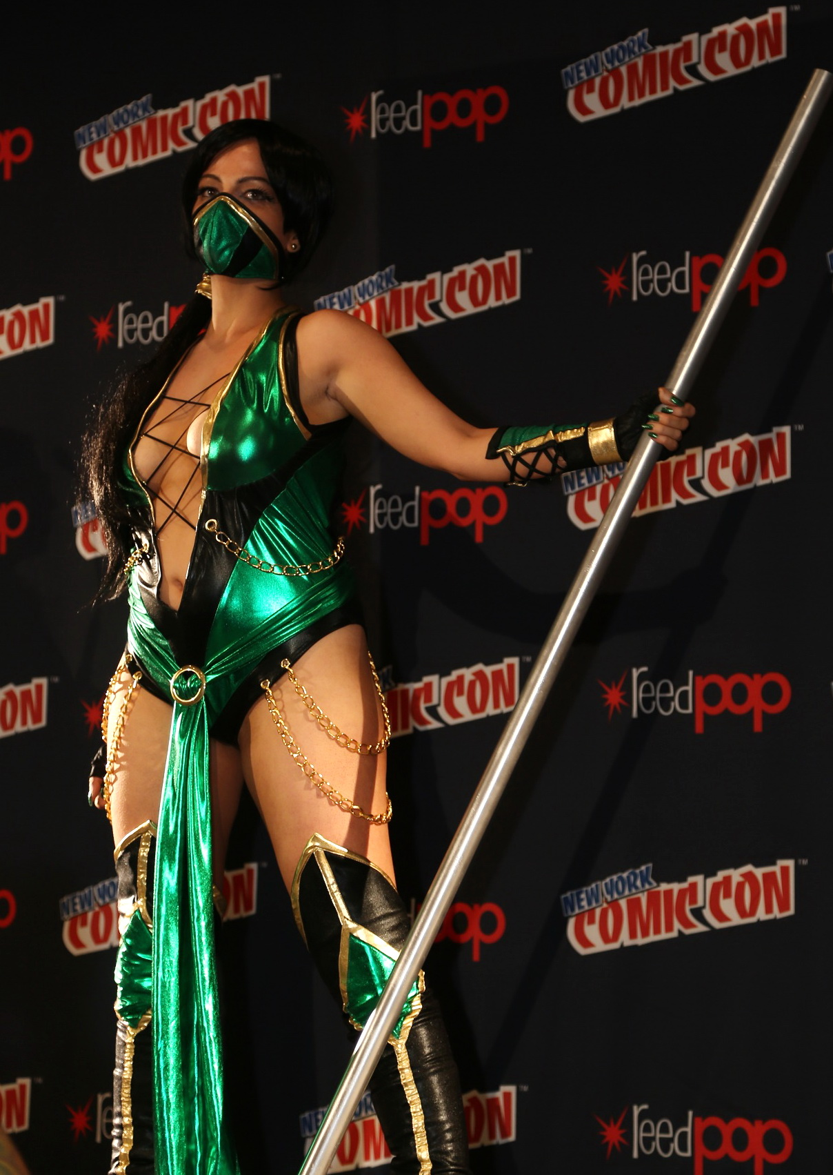 Taken on October 11, 2013